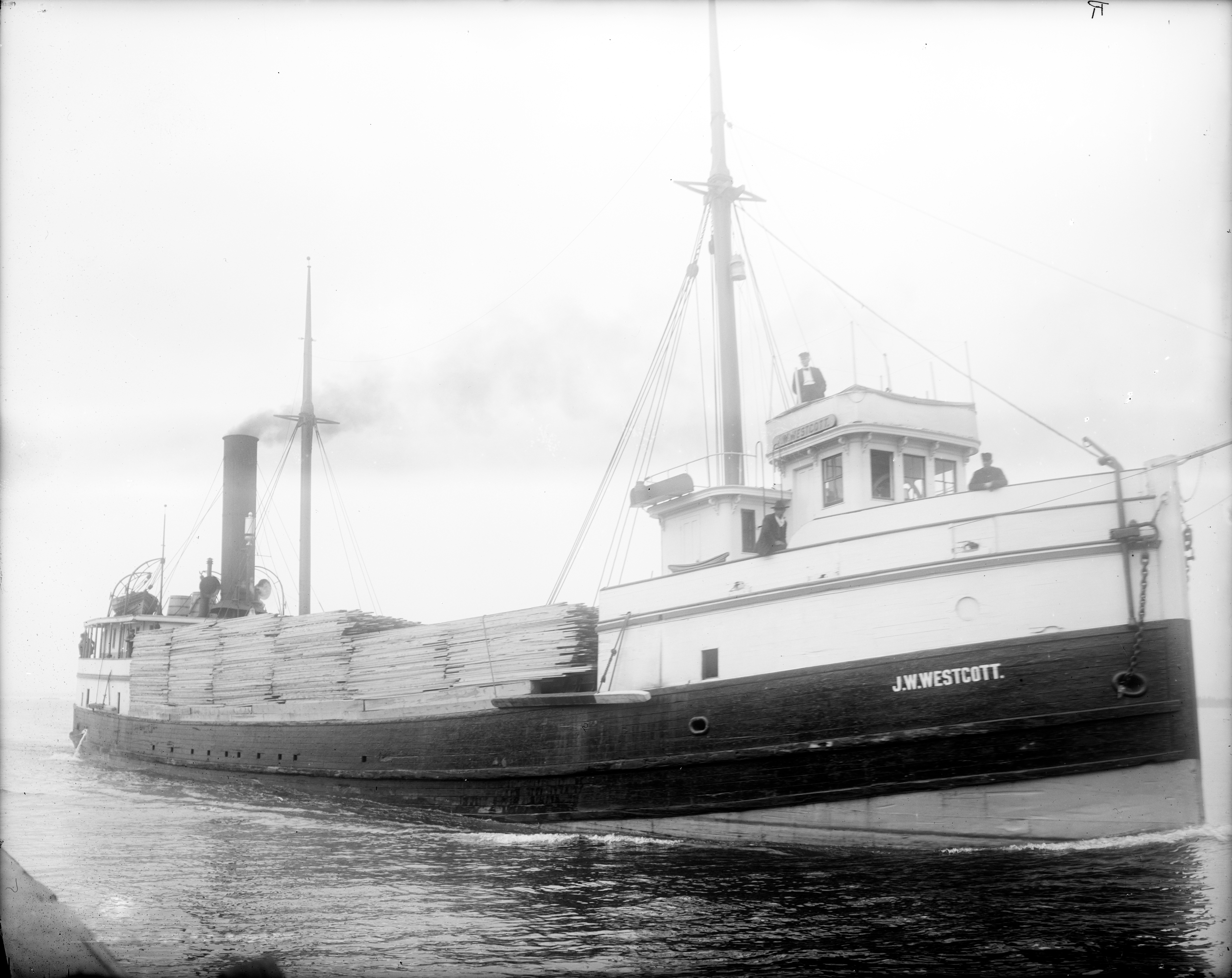 S.S. J.W. Westcott